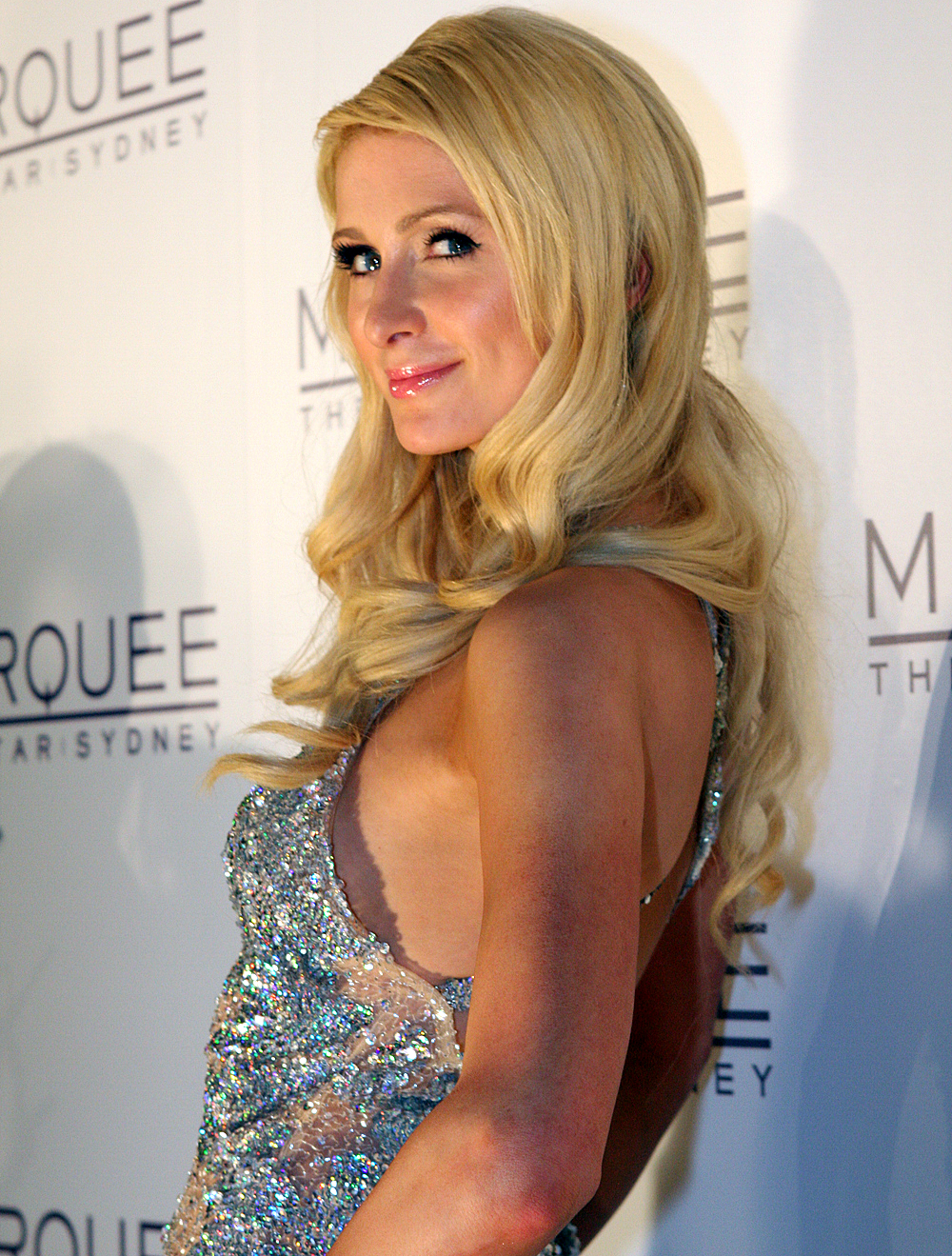 Paris Hilton: Marquee The Star Sydney 2012.